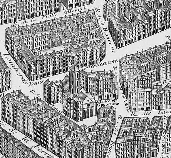 Église Sainte-Opportune